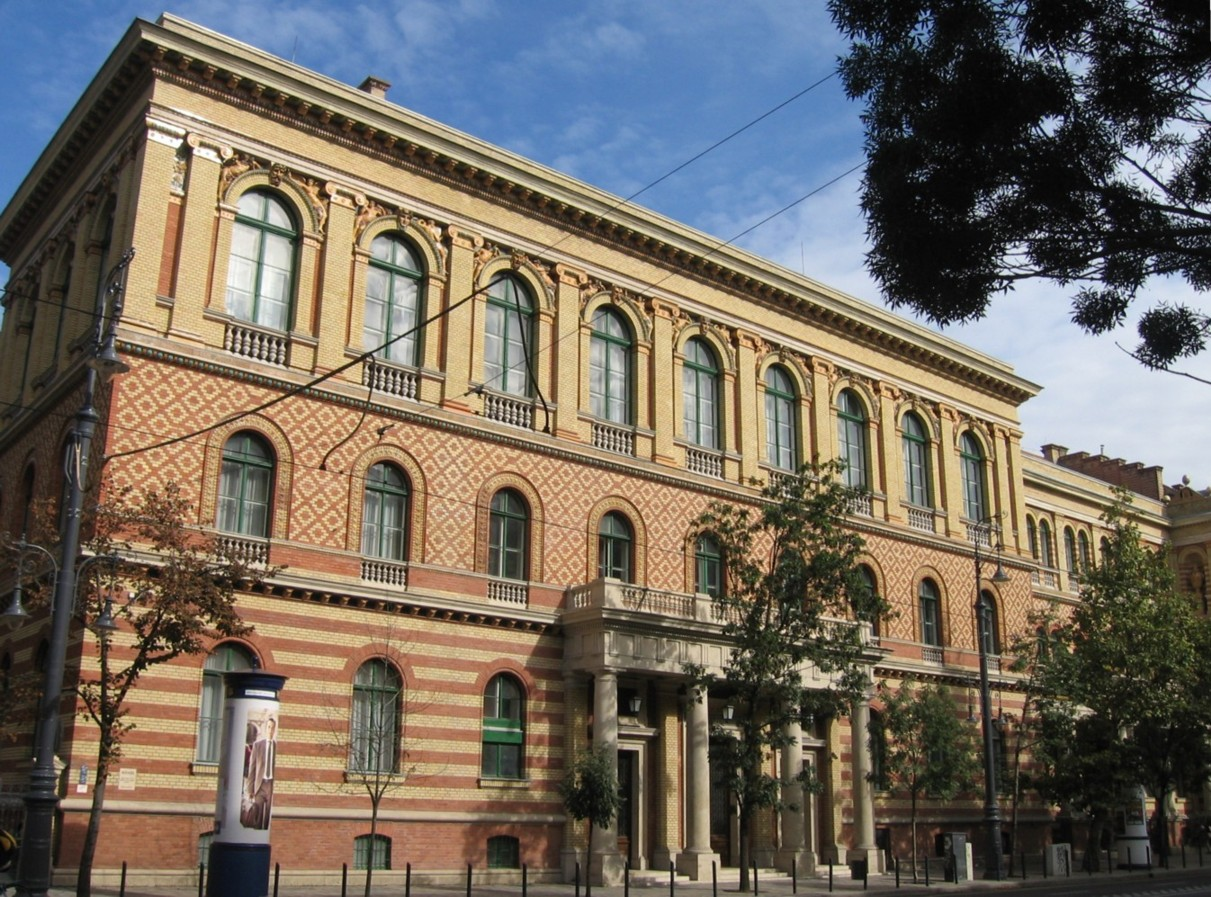 Institute of Technology (today Eötvös Loránd University), Budapest